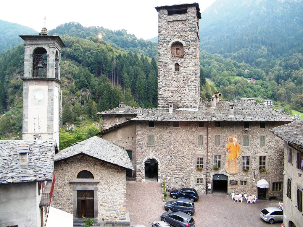 Castle Ginami and Church of St Gregory. Gromo